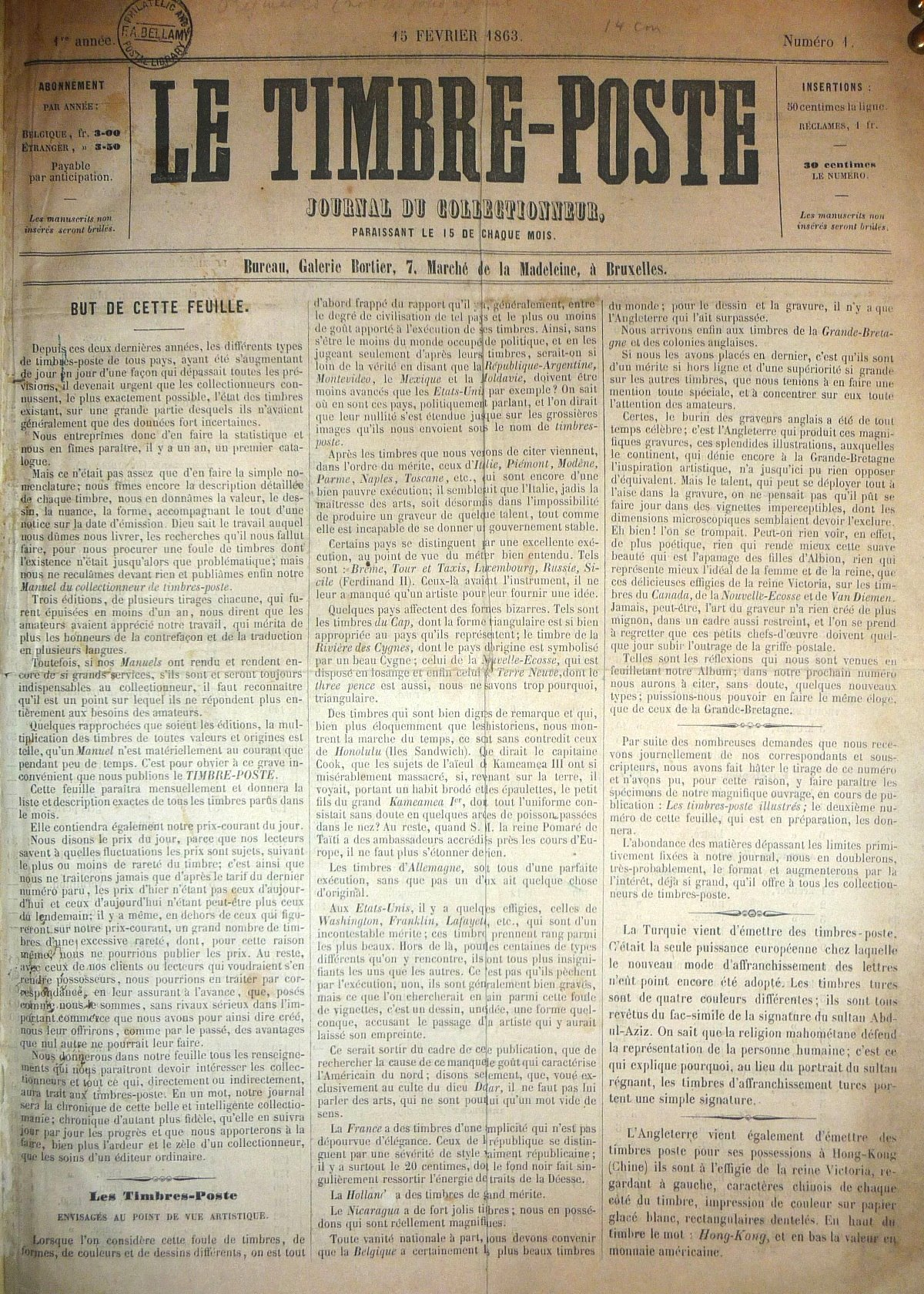 Le Timbre-Post 15 February 1863.